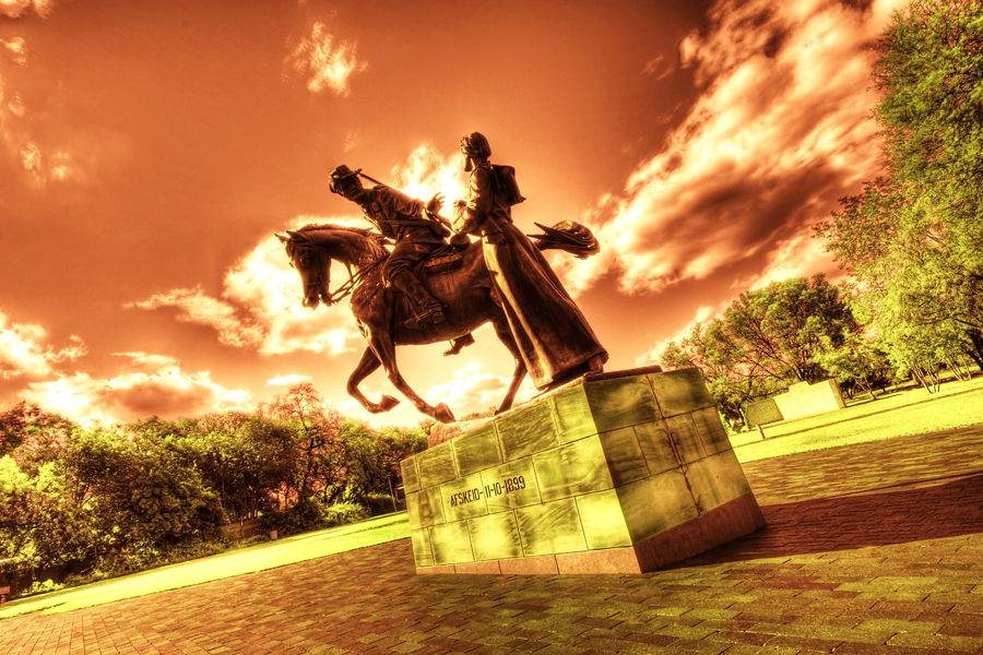 This media shows a South African Protected Site with SAHRA file reference 9/2/302/0045.